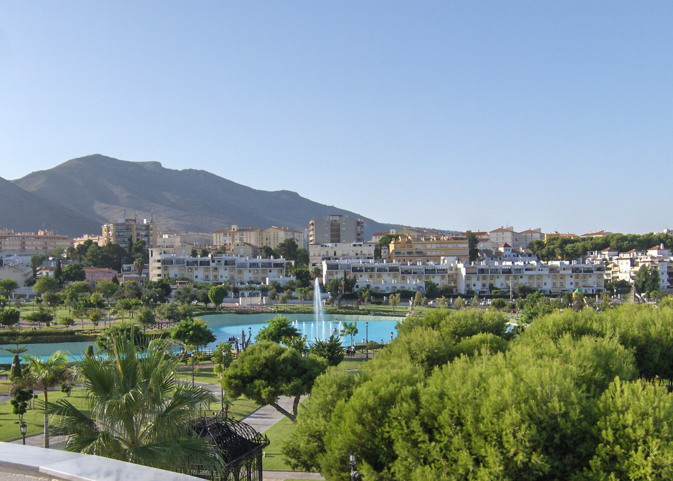 Parque de la Batería, Torremolinos.